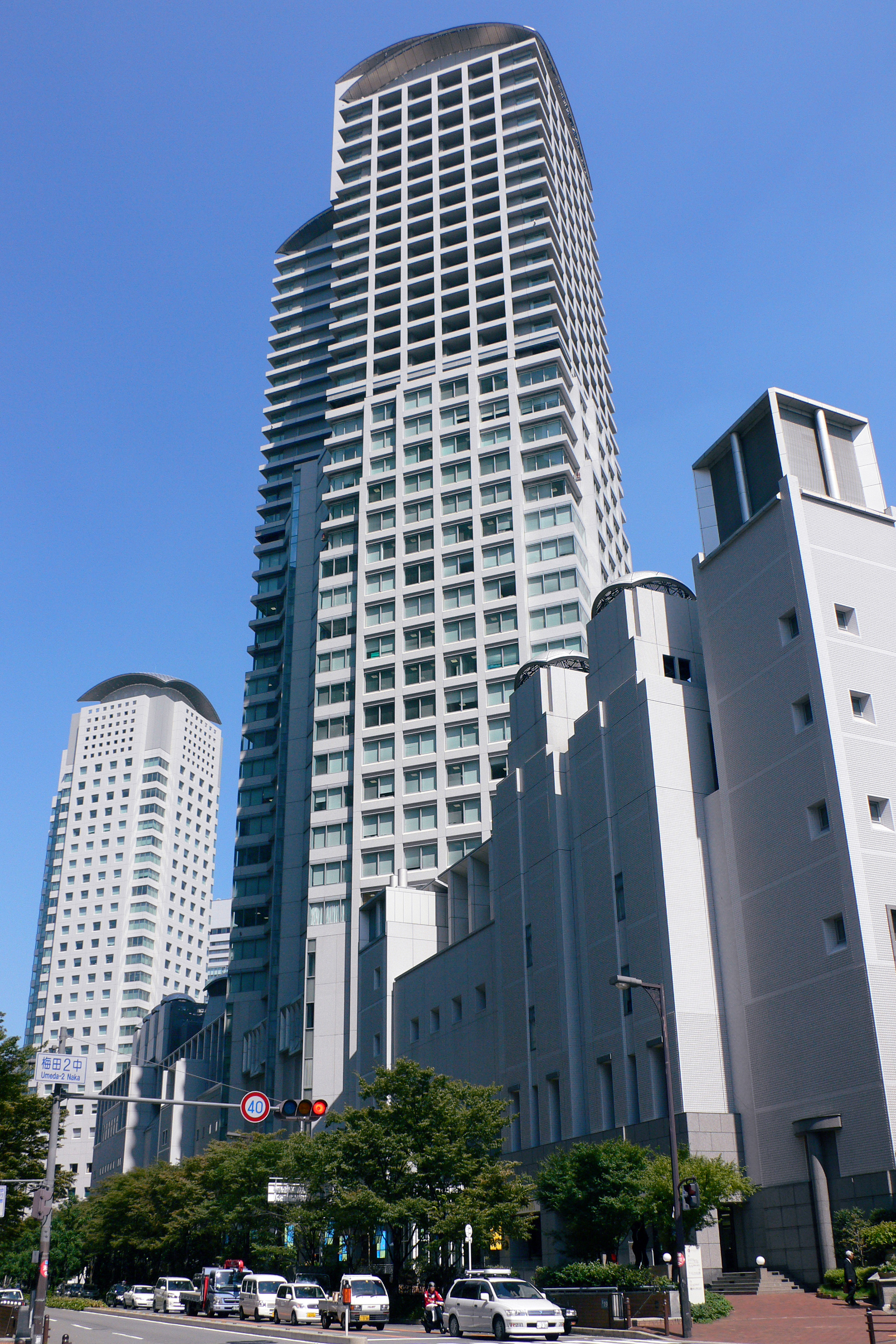 Ritz-Carlton Osaka, Umeda West, Osaka, Osaka prefecture, Japan